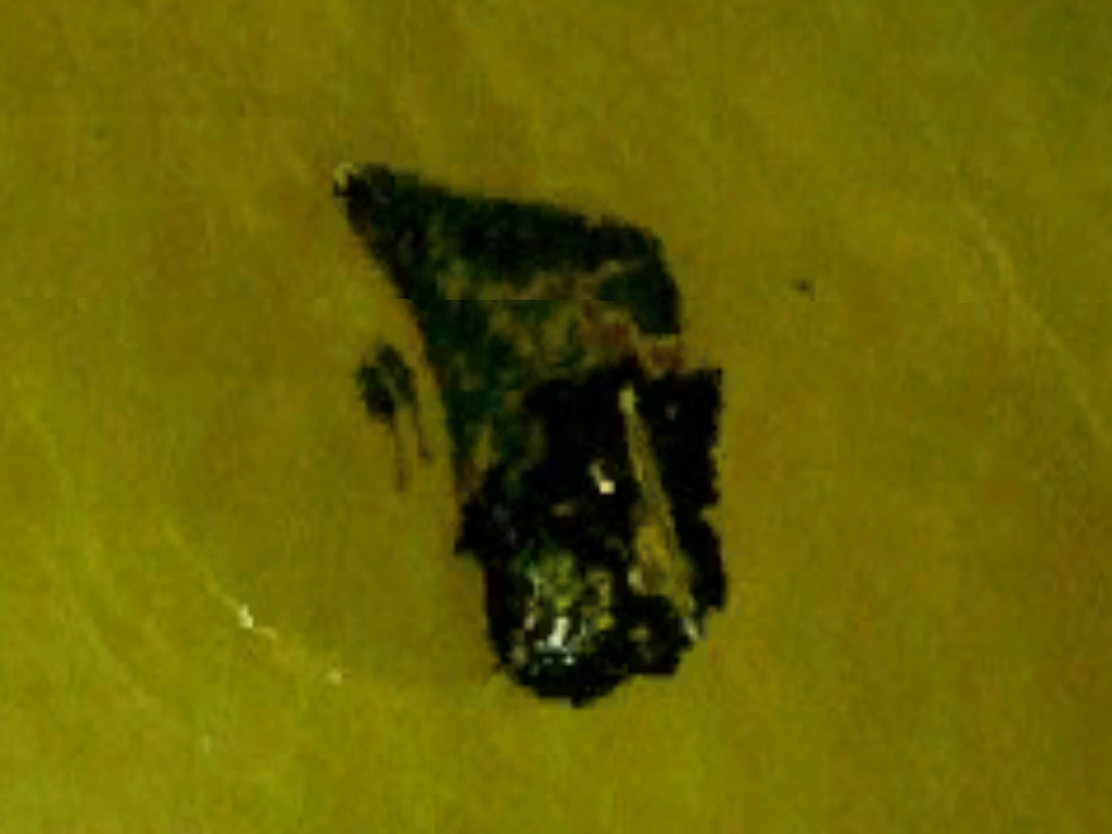 Screenshot taken from NASA World Wind of the "Martín García" and "Timoteo Dominguez" islands, located in the Río de la Plata.